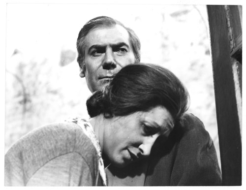 La guerra del cerdo- película argentina